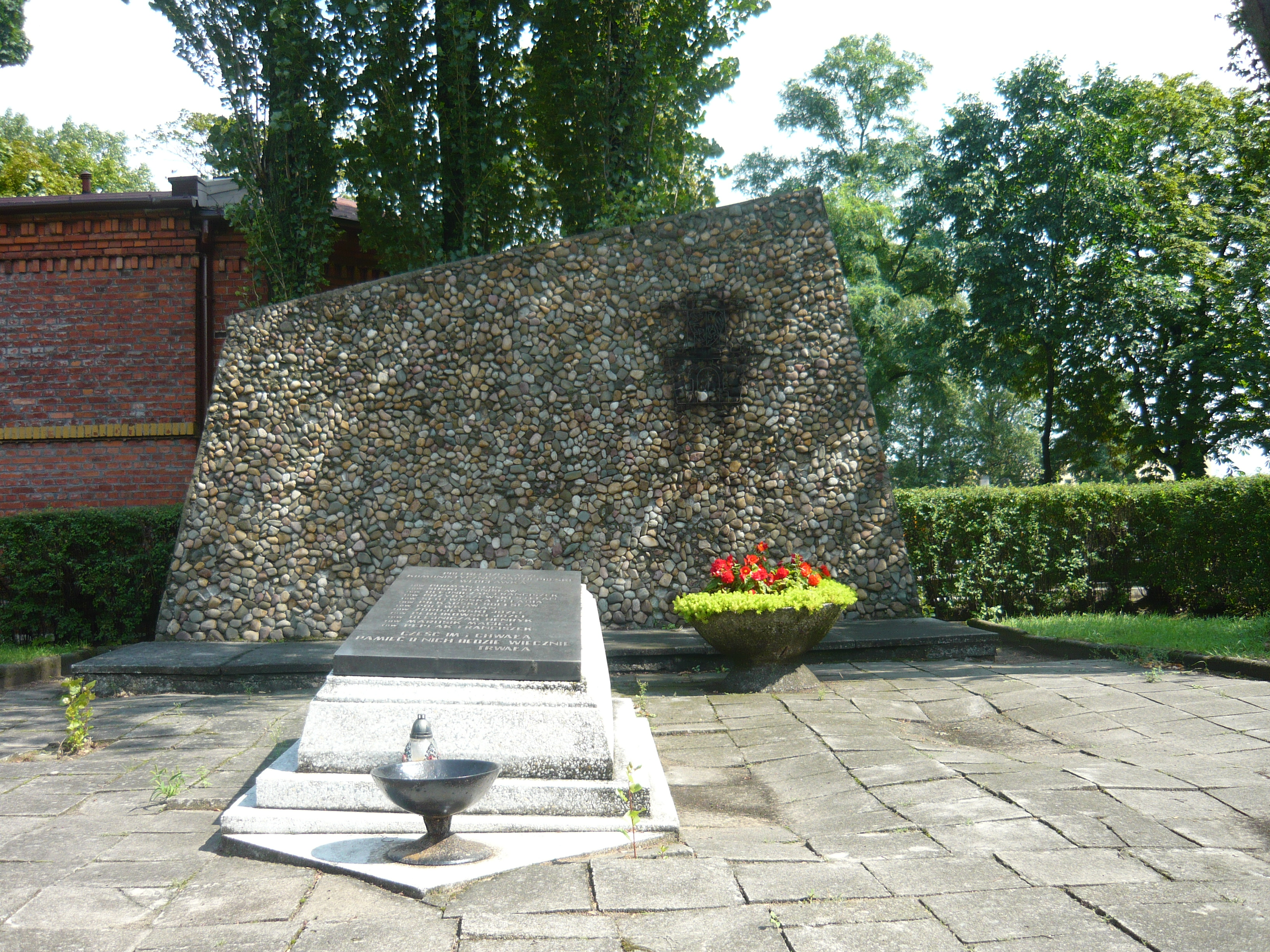 The monument and wall of memory for communist from Włocławek on the graveyard.